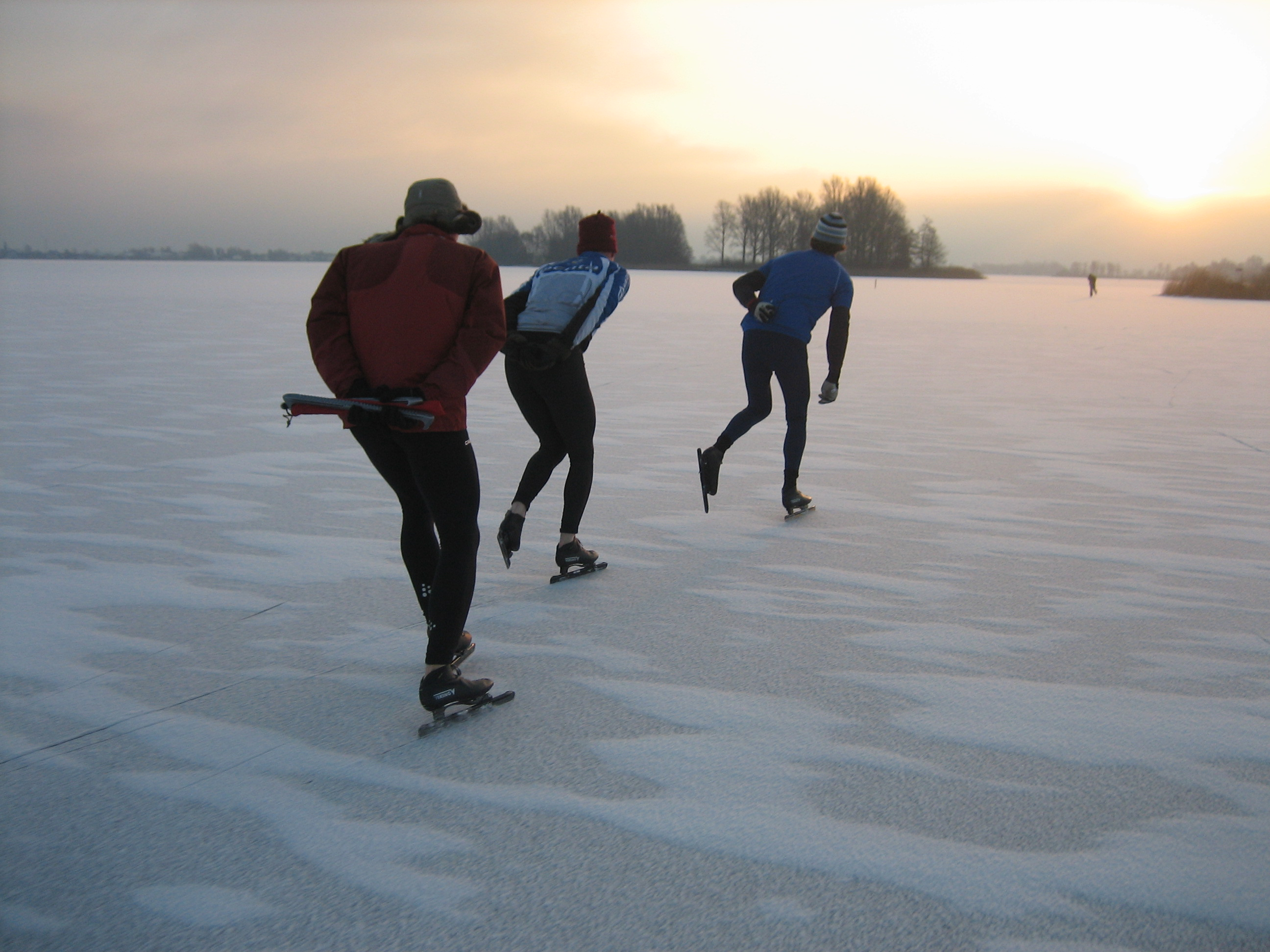 Skating on Loosdrechtse Plassen on January 7, 2009